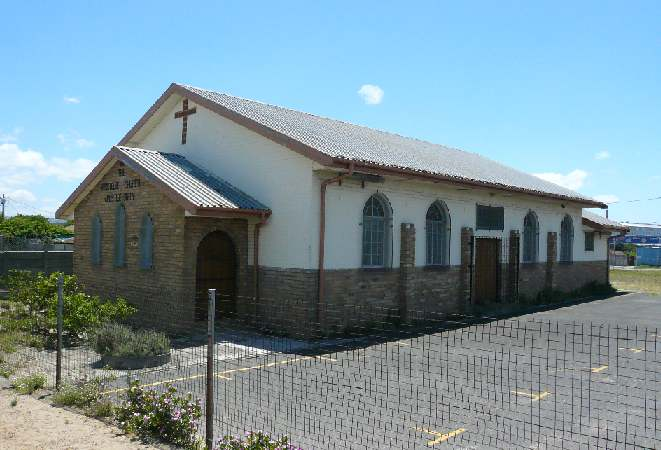 Apostolic Church, ZA, Capetown, Elsiesrivier